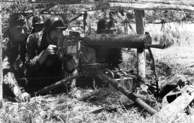 Information added by Wikimedia users.MG on photo is captured Polish ckm wz. 30, not German MG 08